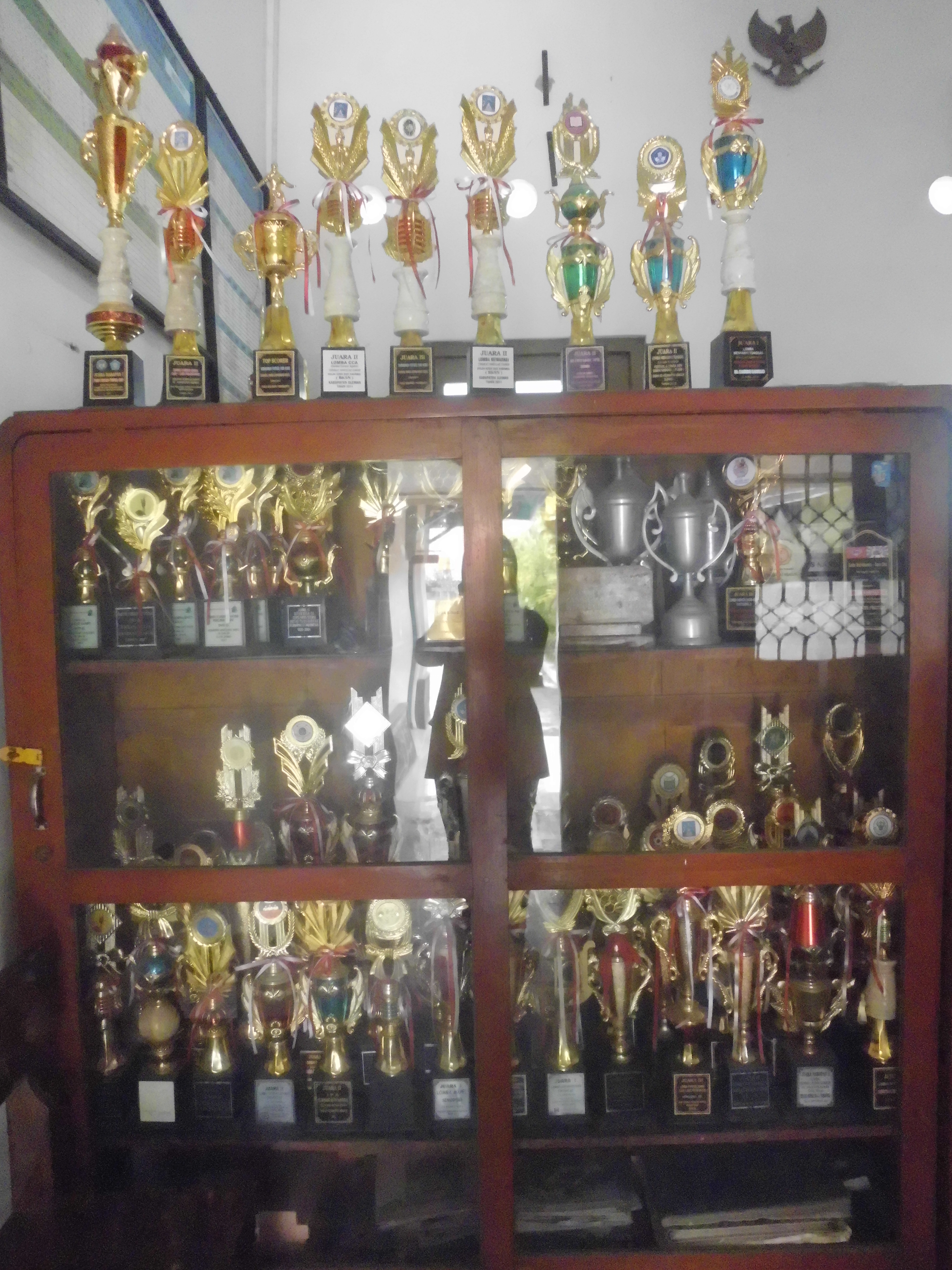 AchievementBahasa Indonesia: Prestasi